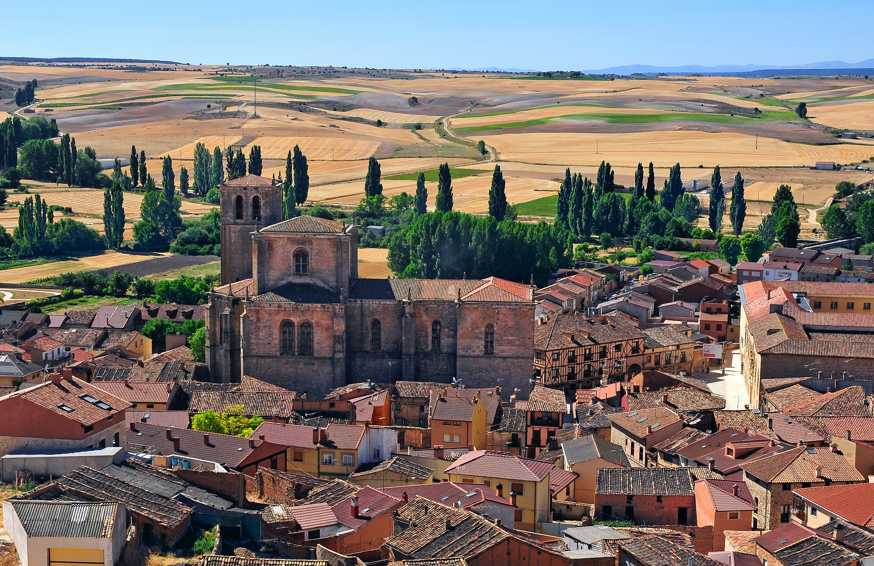 The village and it's surroundings. Peñaranda de Duero, Burgos, Castile and Leon, Spain